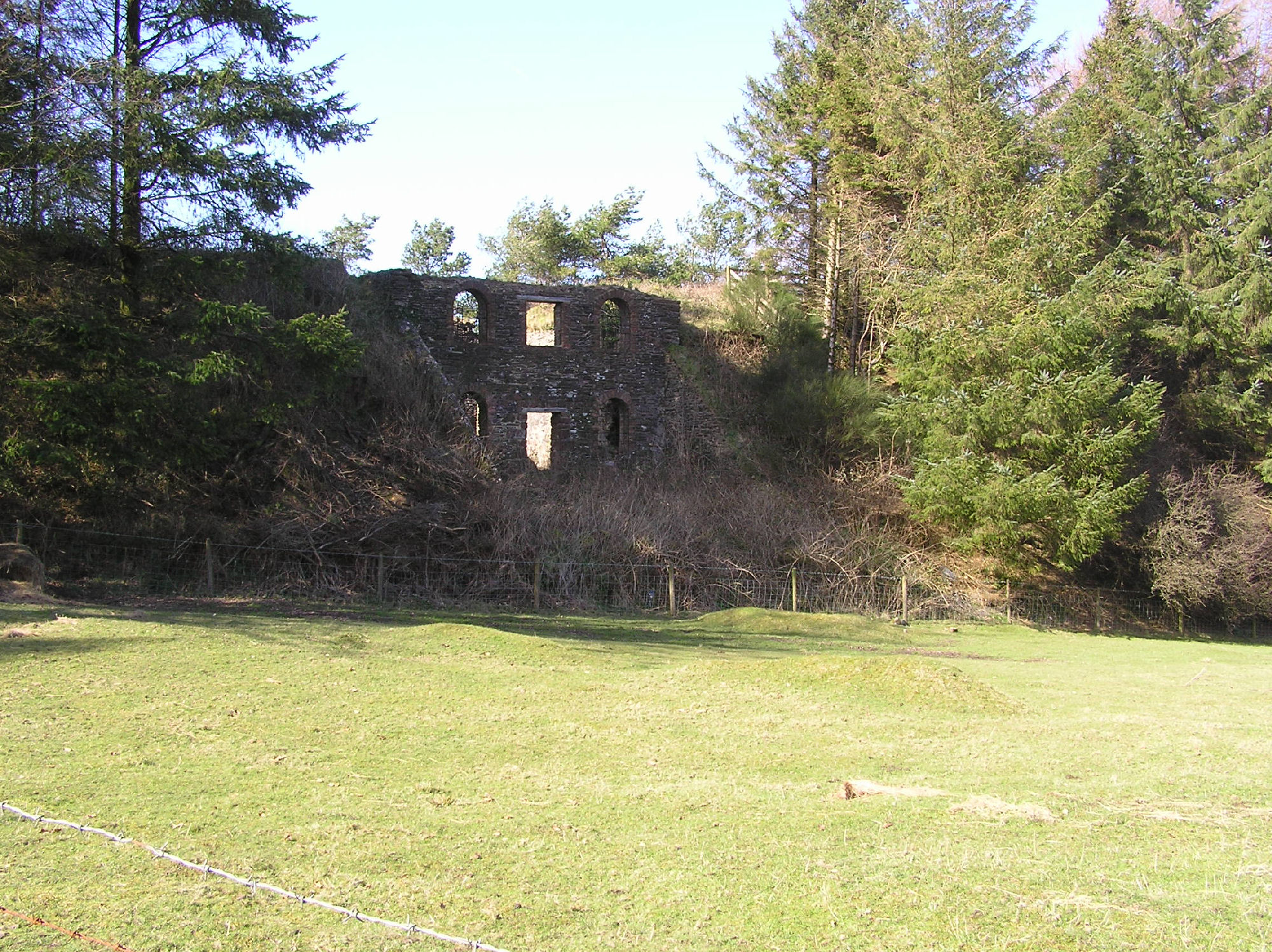 West Somerset Mineral Railway winding house at top of incline at Brendon, UK